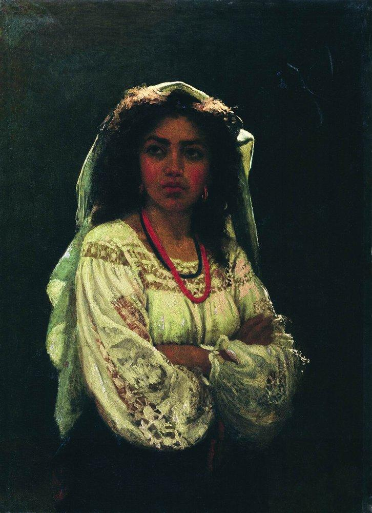 Portrait of an Italian woman